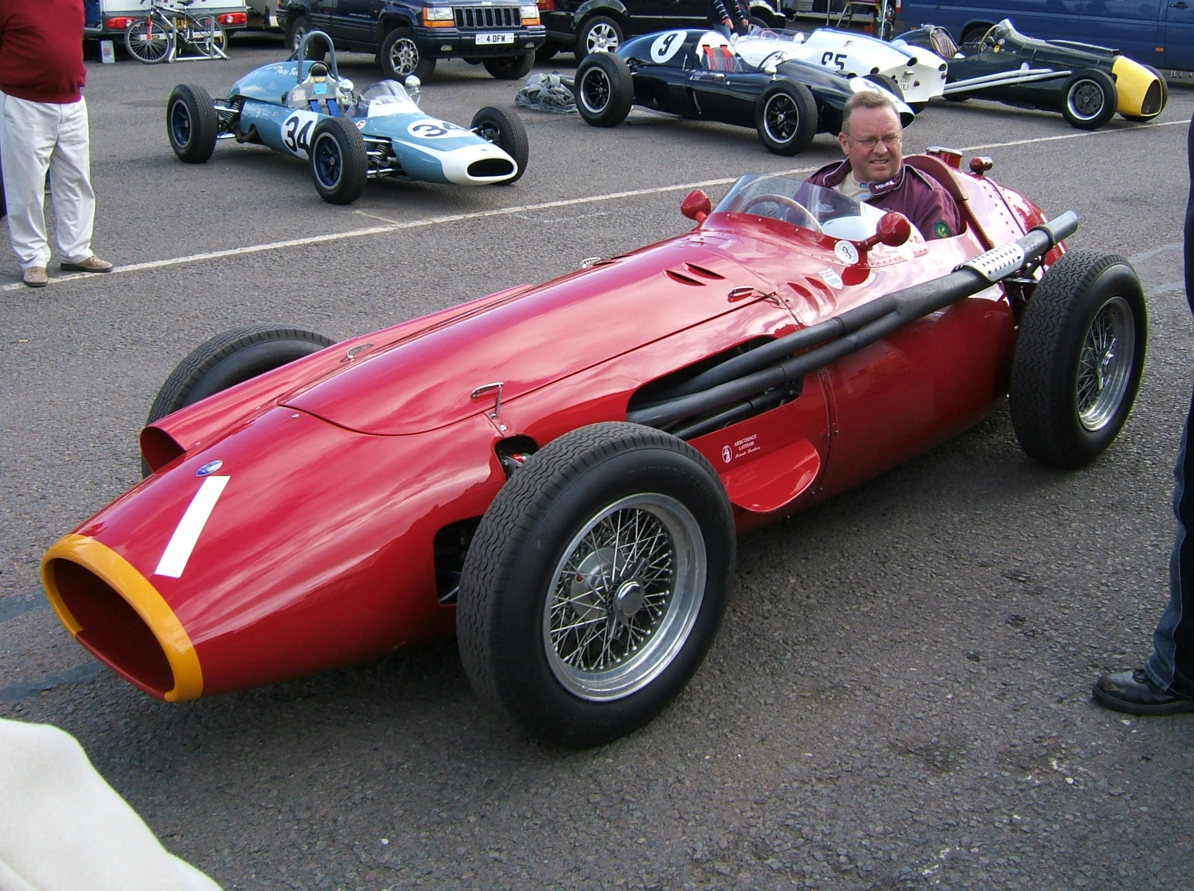 A Maserati 250F Formula One car leaves the paddock of the VSCC SeeRed race meeting, Donington Park, September 2007.